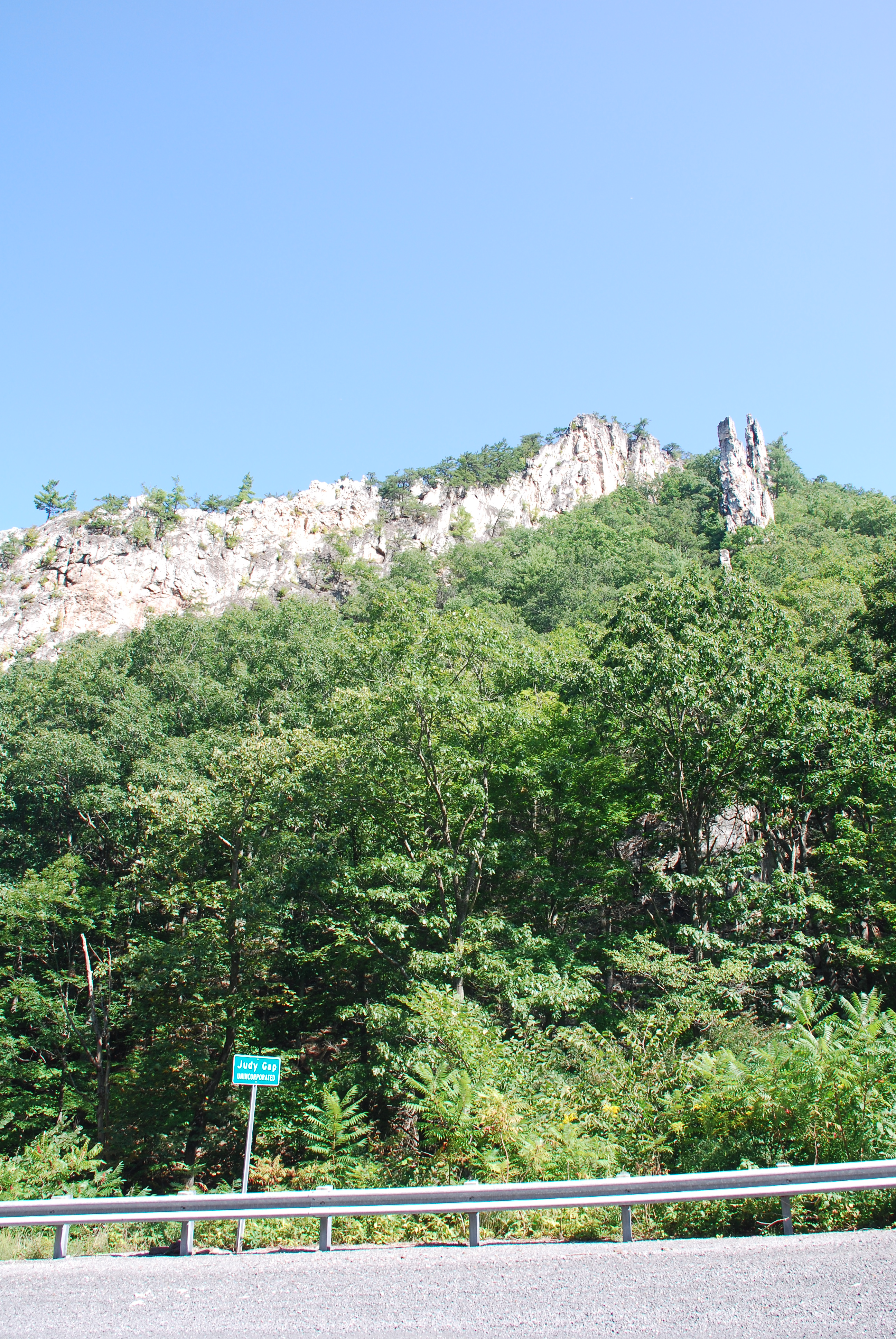 Judy Rocks in Judy Gap in Pendleton County, West Virginia. Picture taken from US 33.